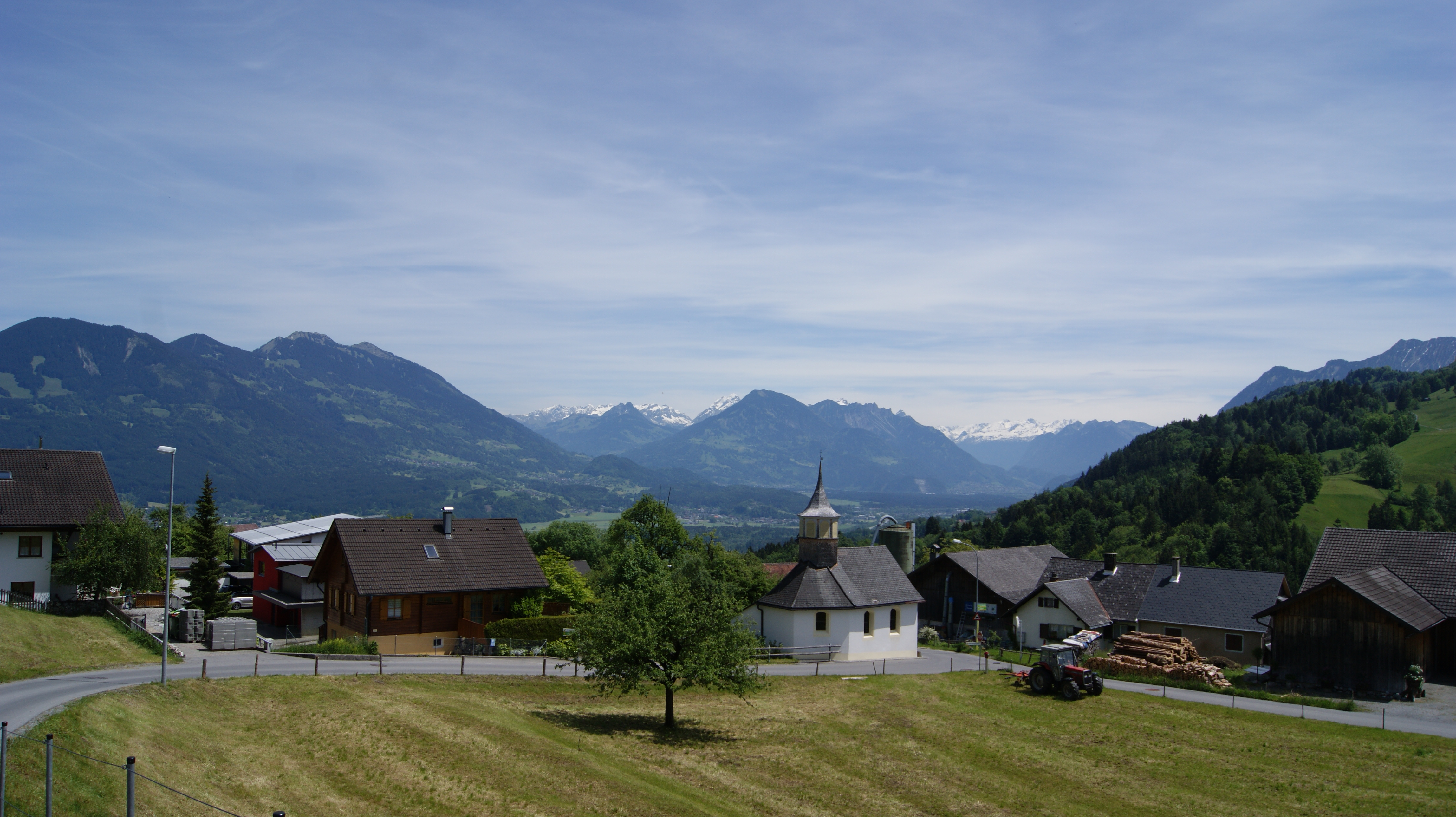 Chapel Maria Sacrifice in Amerlügen, Frastanz, Vorarlberg, Austria. View over Amerlügen to the Walgau.